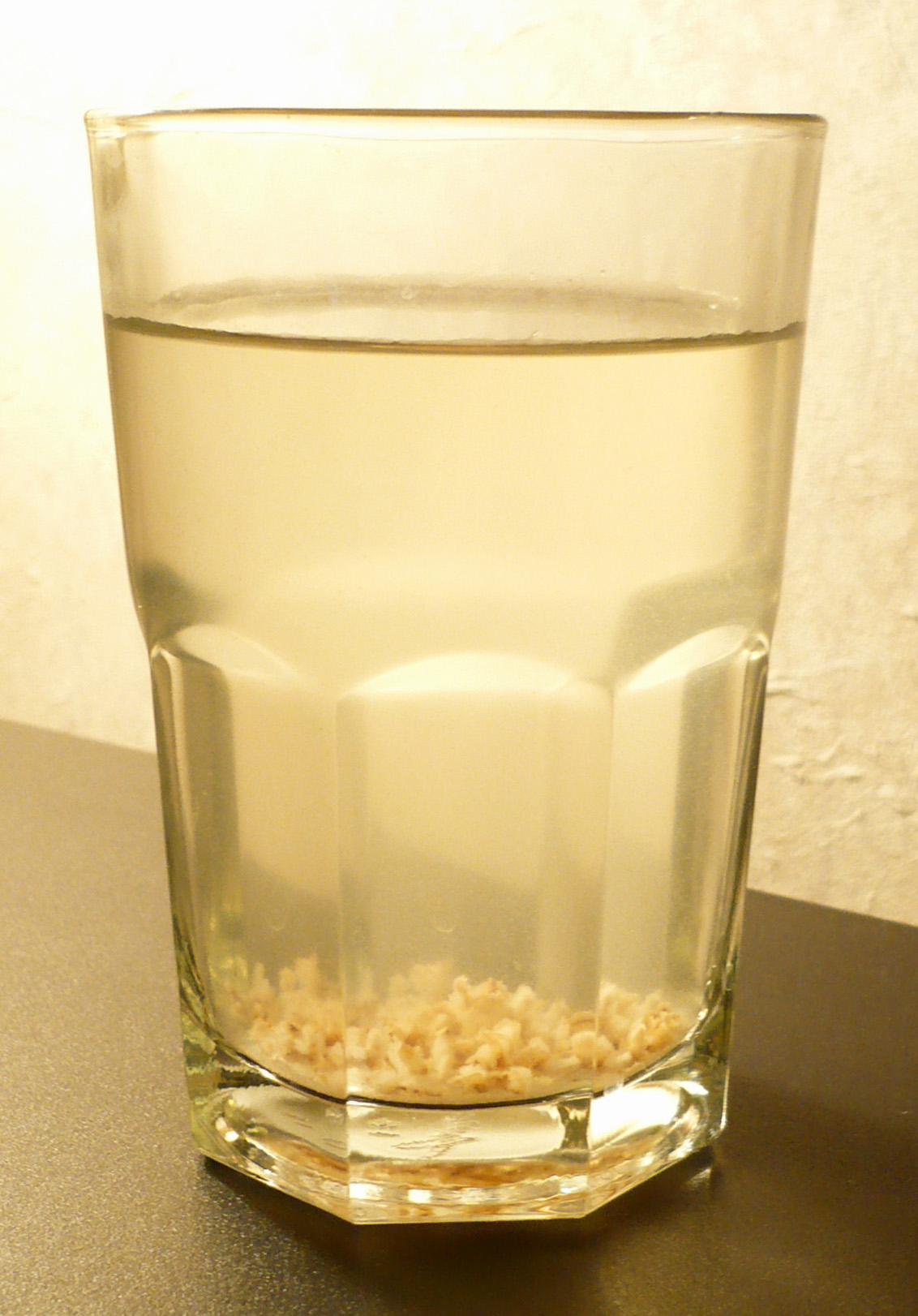 A glass of hyeonmi cha, a Korean tisane made by boiling toasted brown rice. Photo taken in Kent, Ohio with a Panasonic Lumix digital camera (model DMC-LS75).